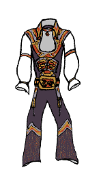 Eskimo Totem Pole (Elvis)